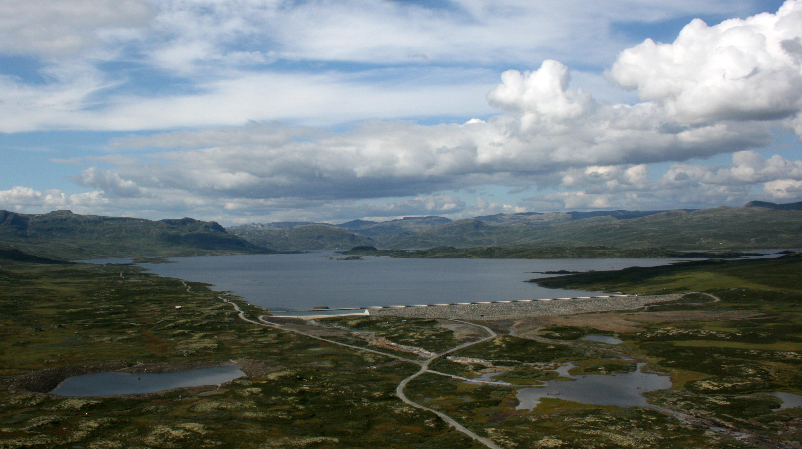 Stolsvatnet is a lake in Hovet, Hol Kommune. The lake is a reservoir for the Rud hydroelectric powerstation in Hovet. The lake covers an area of 34,86 km2